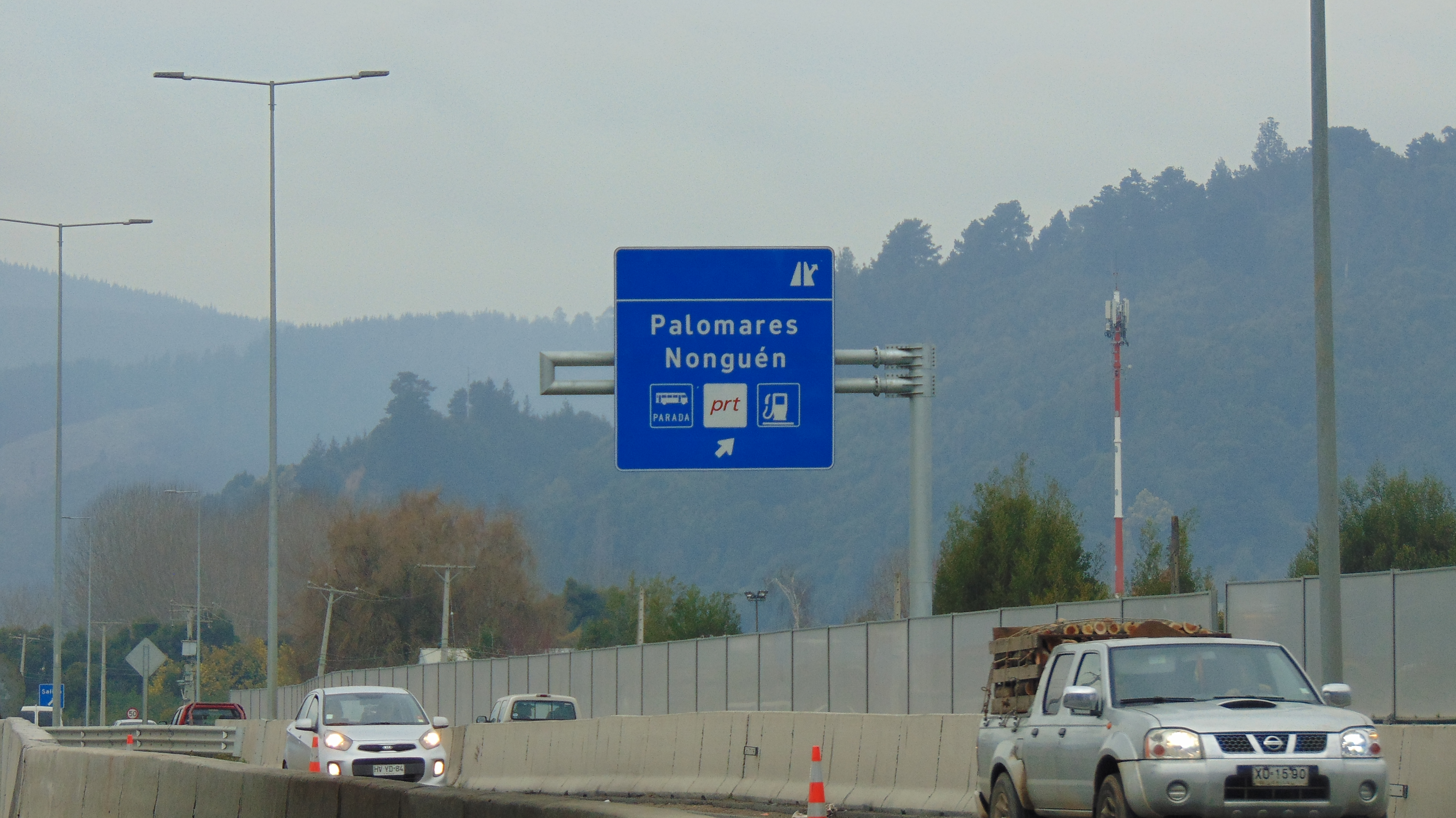 Valles del Biobío Highway (Route CH-146), Palomares-Nonguen exit, Concepción, Chile